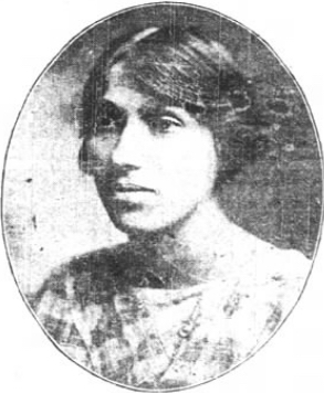 Oval portrait of an African-American woman wearing a plaid top or dress; from a 1923 newspaper.